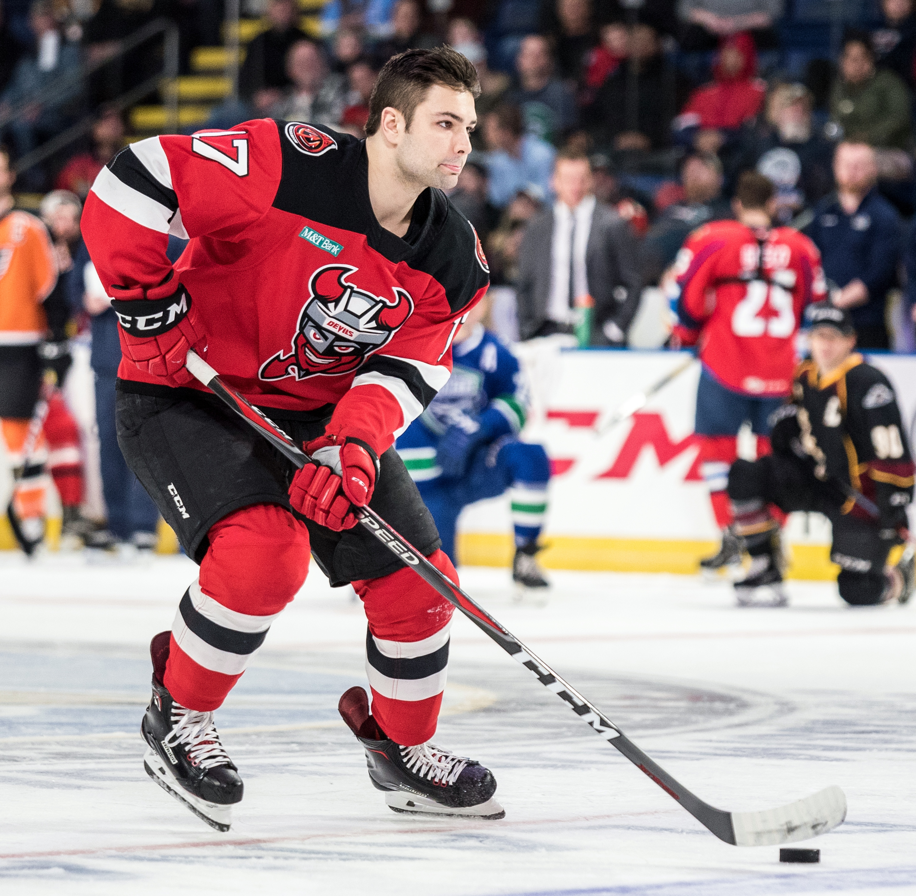 Photo by: China Wong